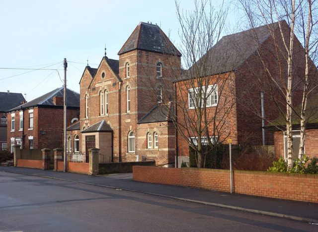 Grove Street and former Wesleyan school The large church closer to town and the school (the building with the distinctive roofline) show the large presence the Methodist movement had within the town of Retford. The school is now a business premises.The Methodist Chapel was designed by Bellamy and Hardy. As the school building shows characteristic detailing used by these architects, it is also probably their work.